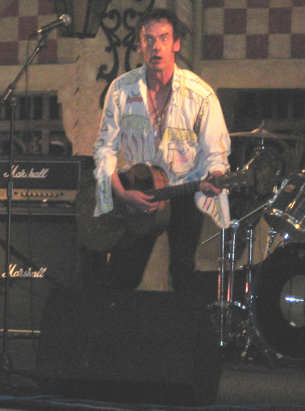 Ed Tudorpole at the Rebellion punk festival, Blackpool 10 August 2008